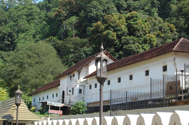 Royal Palace of Kandy.